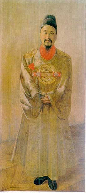 The portrait of Gojong, king of Joseon Dynasty painted by Hubert Vos in 1898, 199×92cm, Oil painting, Private collection